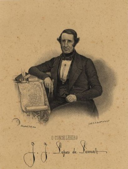 José Joaquim Lopes de Lima, 1797-1852 Governor of Portugues India, 1840-1842 Governor of Port. Timor, 1851-1852